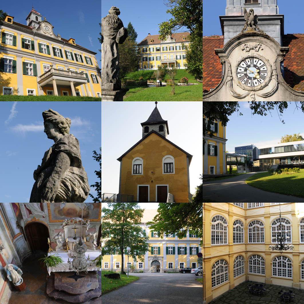 This is a mixture of pictures showing the château Premstätten including views of the arcade atrium, the chapel, the clock tower, the front and a historic statue.